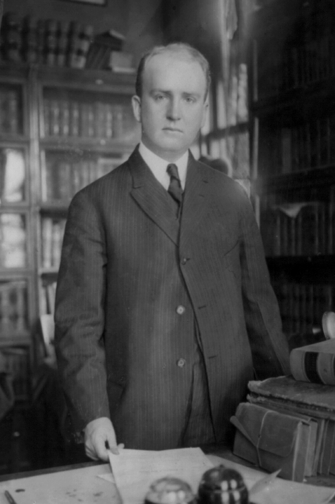 Joseph Patrick Tumulty, Woodrow Wilson's chief of staff.